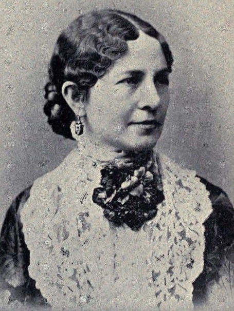 Image of Ann Eliza Young, one of Brigham Young's wives (2nd President of The Church of Jesus Christ of Latter-day Saints). Ann Eliza Young was later a critic of polygamy.